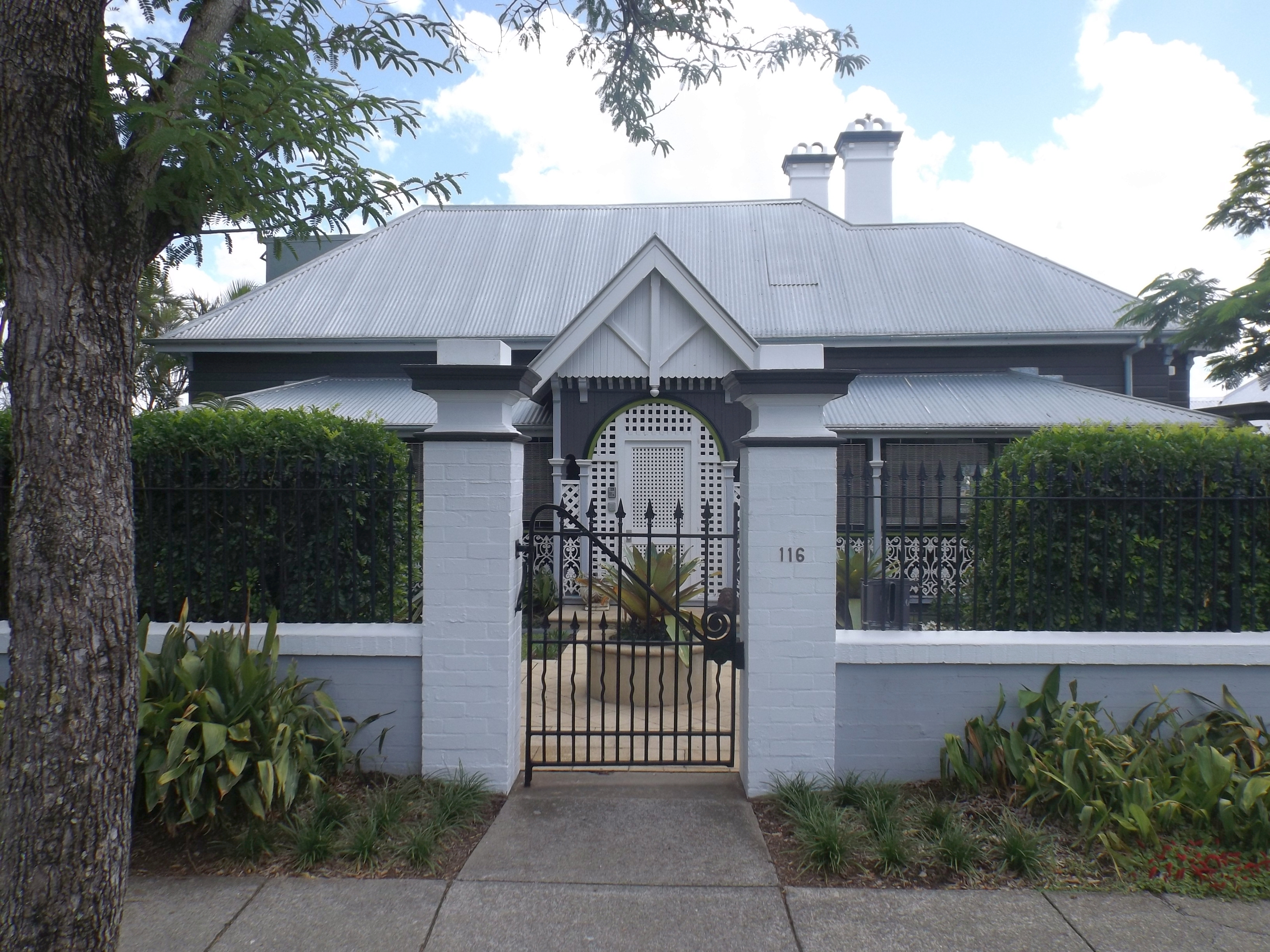 Photo of Kinauld residence on Dornoch Terrace, Highgate Hill, Brisbane, Queensland, Australia.